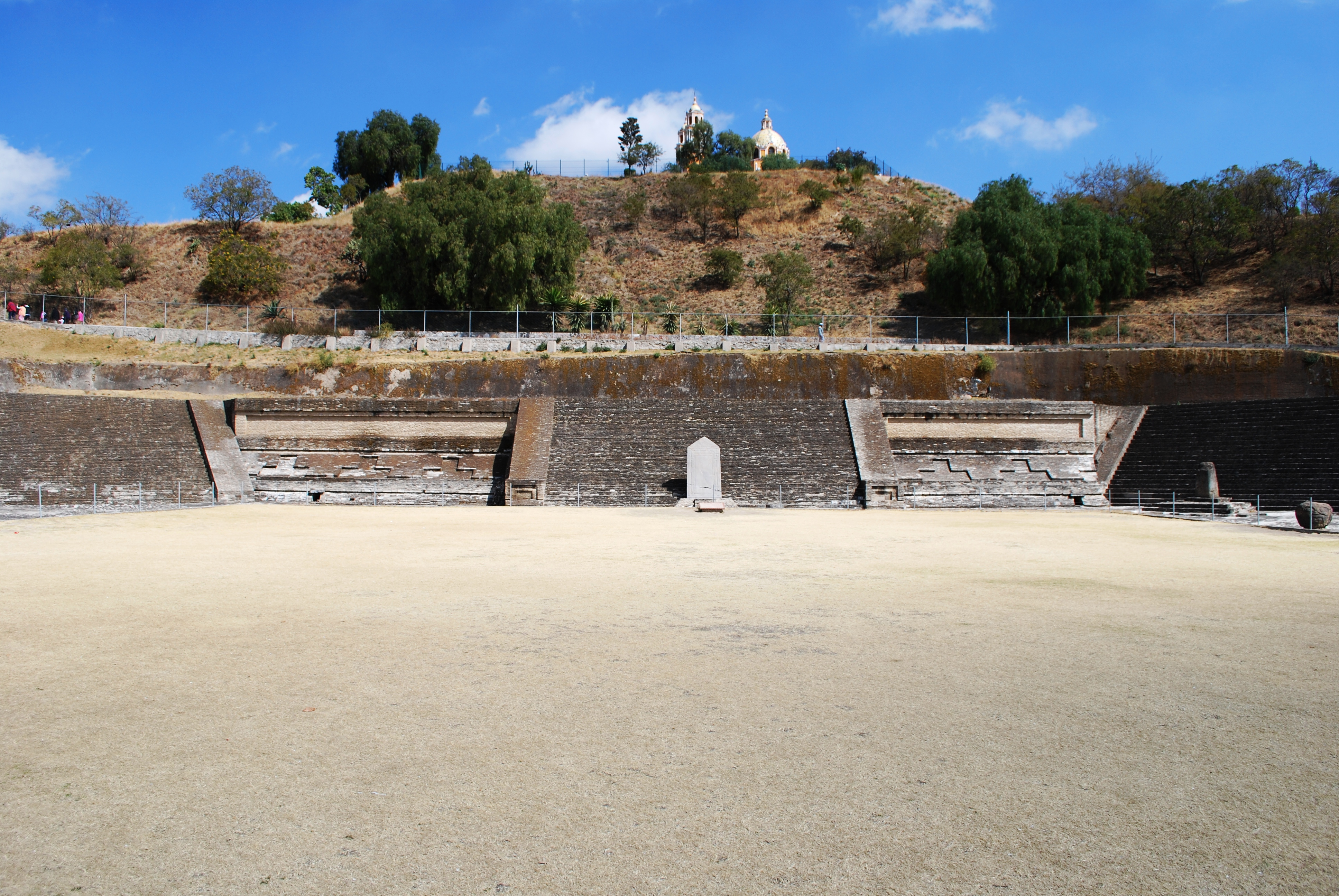 View of the Patio of the Altars at the Great Pyramid of Cholula, Puebla, Mexico